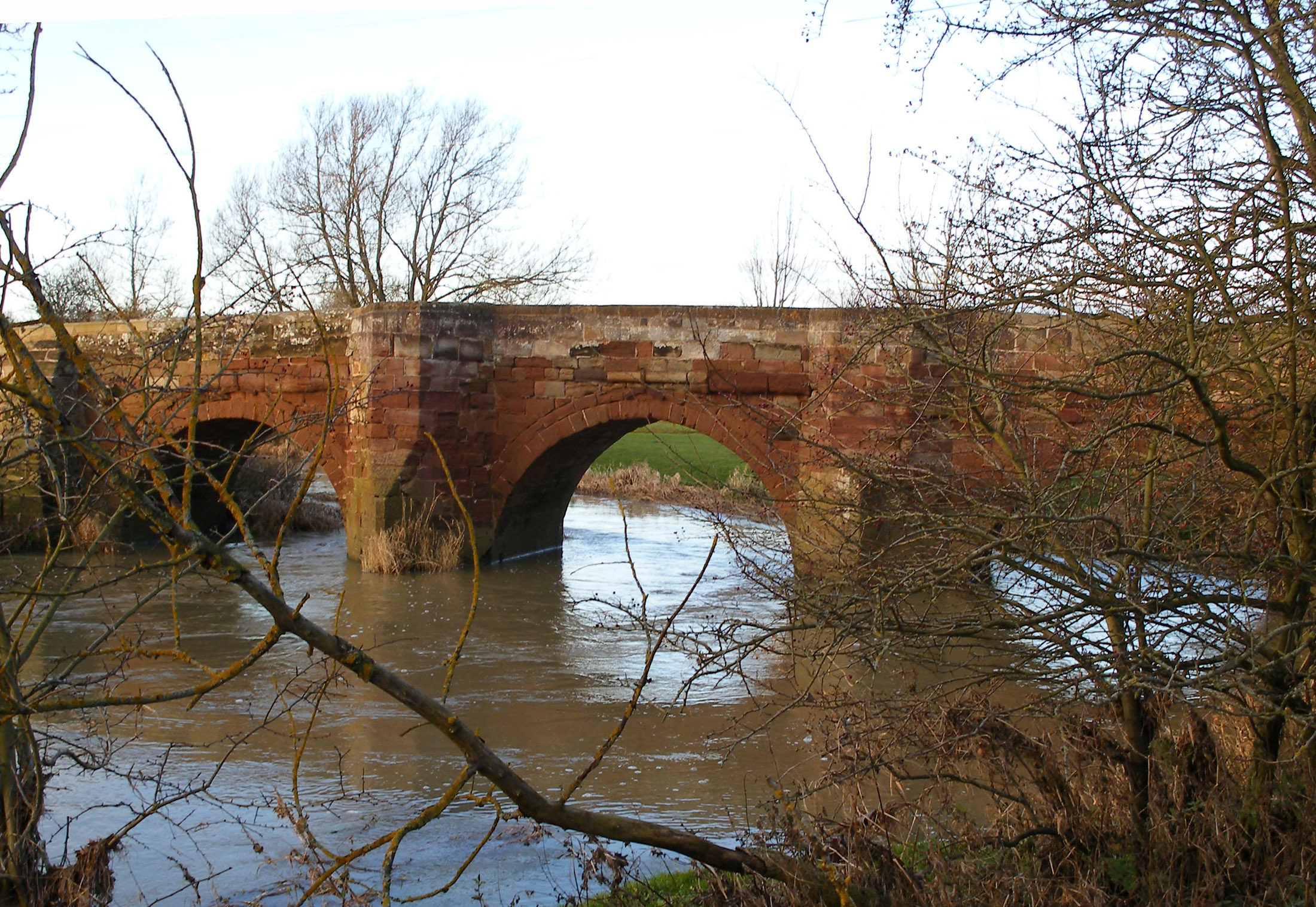 Bridge over the River Leam at Hunningham, Warwickshire, seen from the south